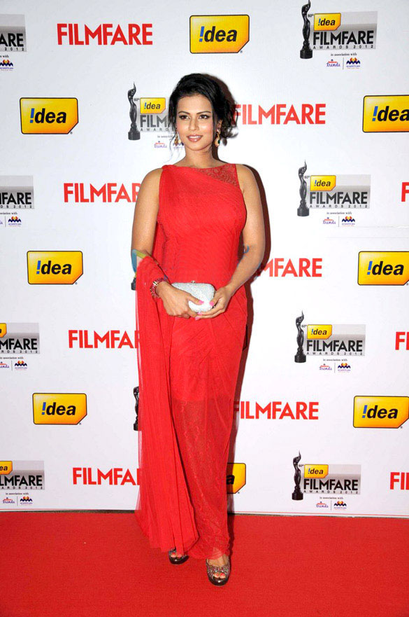 Sharmiela Mandre at 60th South Filmfare Awards 2013